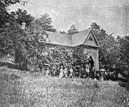 Summer at the Concord School of Philosophy, Concord, Massachusetts. The school was founded by Amos Bronson Alcott; the structure still stands. Image from Alcott's Ralph Waldo Emerson: An Estimate of His Character and Genius. Cupples and Hurd, 1882.